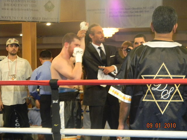 Dmitry Salita's hand is raised by referee David Diamante at Oceana Hall in Brighton Beach Brooklyn, New York